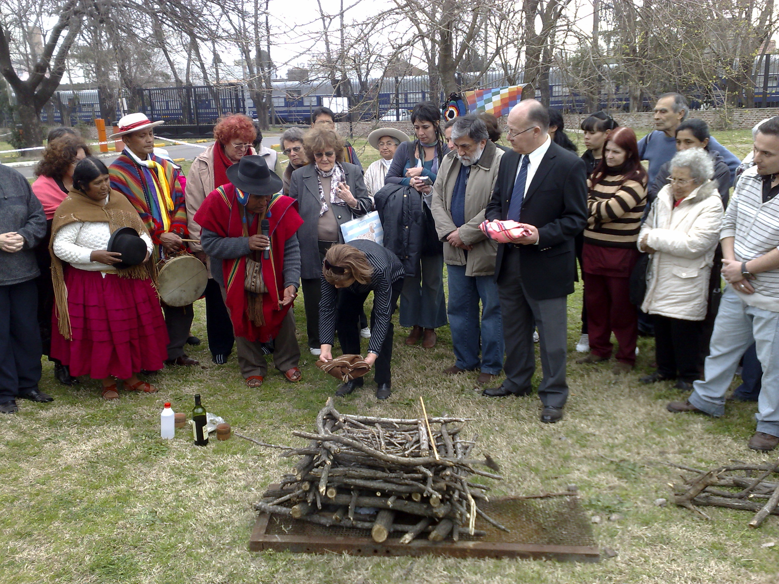 Ritual of the Pachamama at the Universidad Nacional de Lanús, UNLa. Remedios de Escalada, Buenos Aires, Argentina.